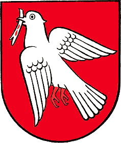 Coat of arms of the Imperial Abbey of Pfäfers